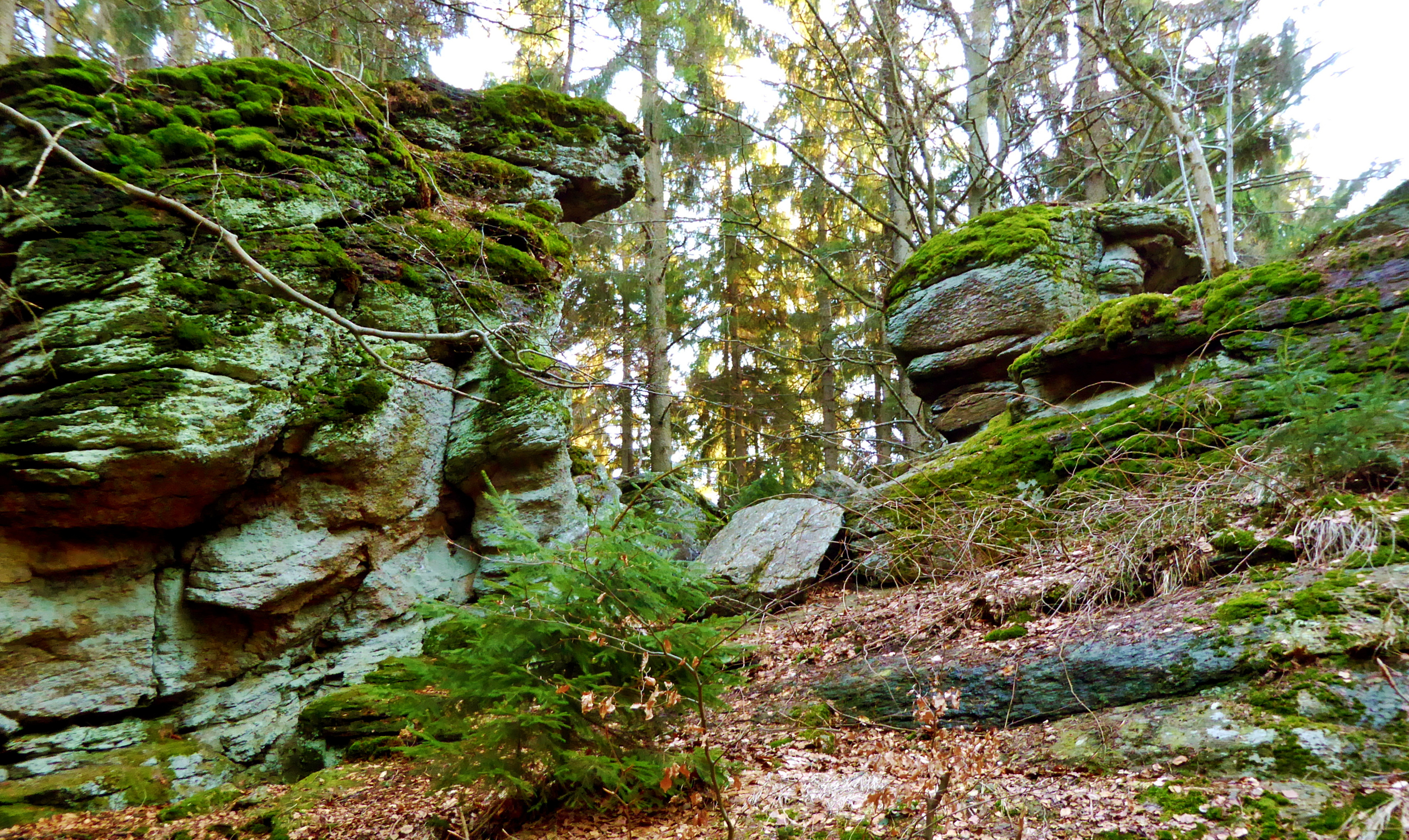 Rock group called Petrified Chateau, natural monument of Žďár Hills. The tourist trail of the Czech Tourists Club passes between the rocks (blue marking). View of part of rock wall. (approx. 752 m above sea level). The highest rock called Chateau Tower (765 m above sea level) right outside the photo. Photo-location: Czechia, Vysočina Region, the town of Svratka, a group of rocks called Petrified Chateau (azimuth 245°).